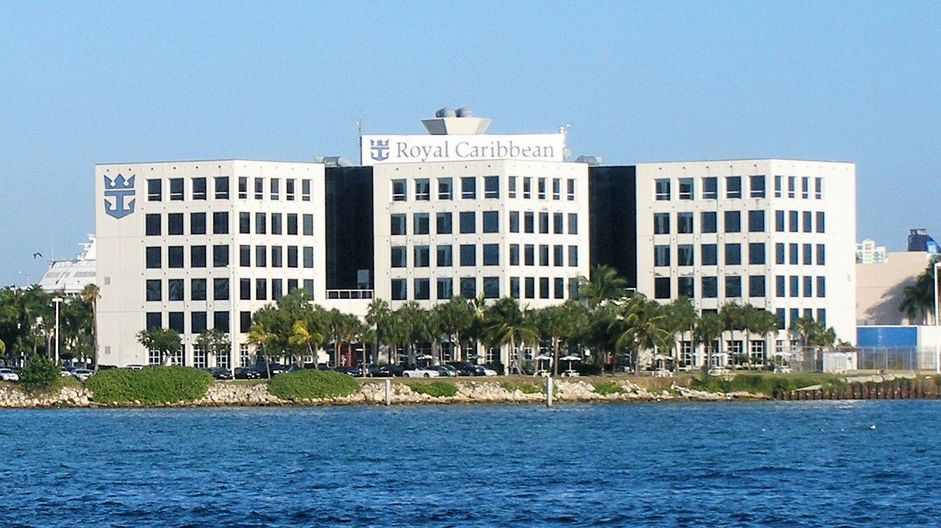 The headquarters of Royal Caribbean International in Miami.